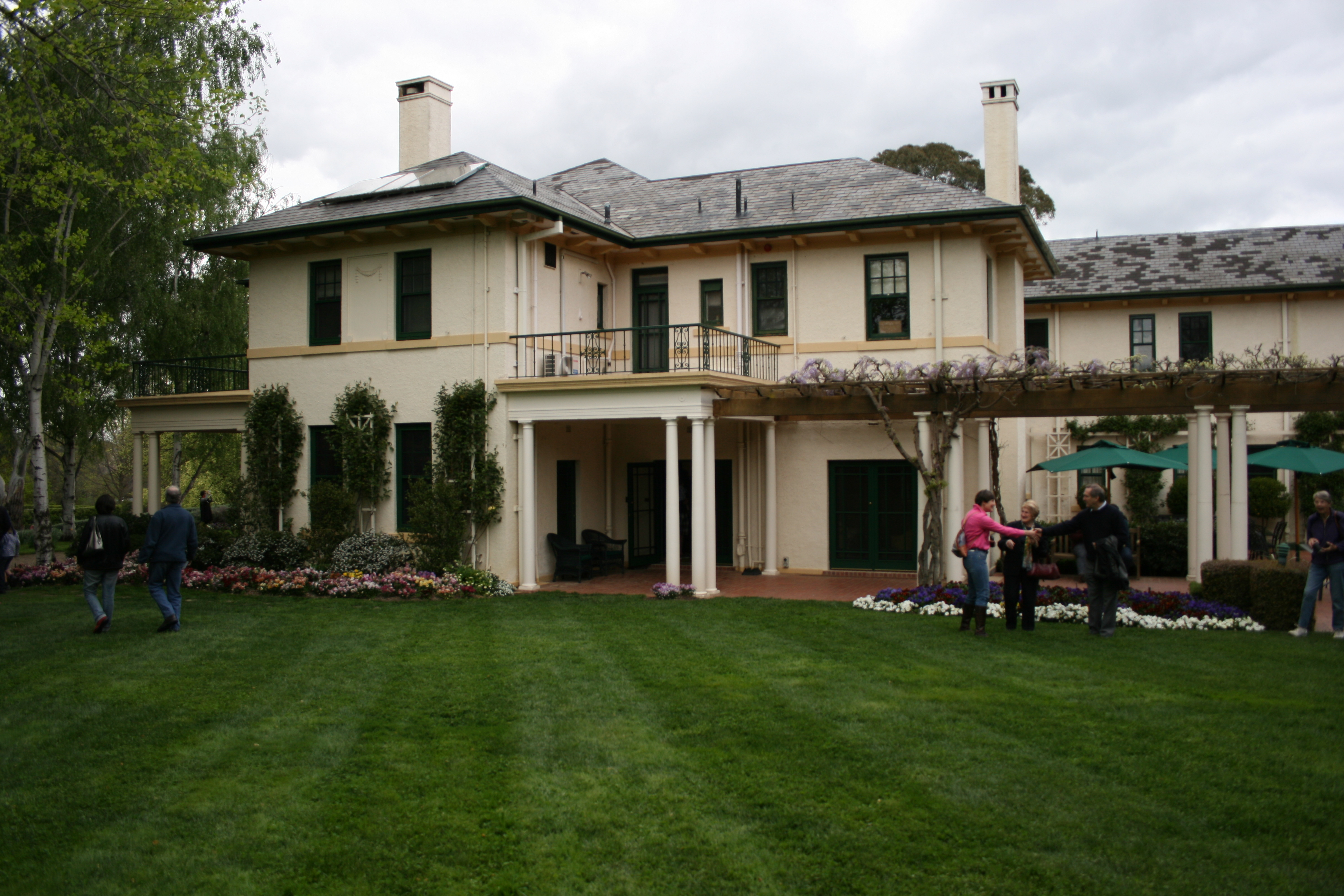 The Lodge Canberra